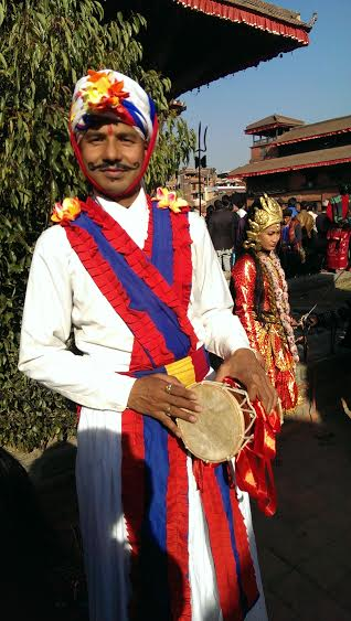 छलिया नृत्यमा लगाउने पोषाक